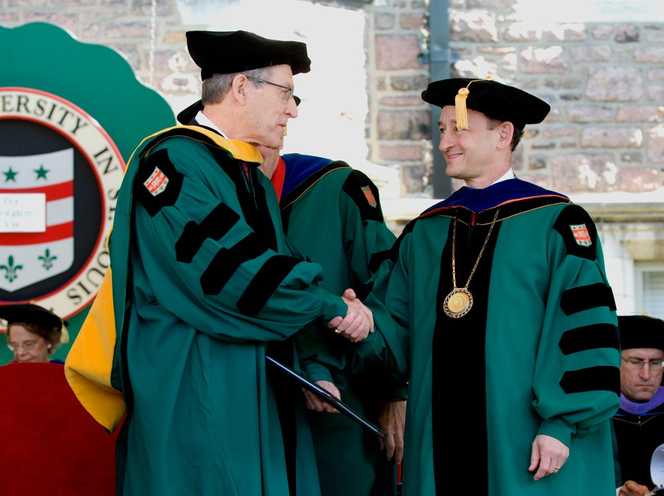 Sly received an honorary doctor of science degree from Washington University in St. Louis in 2007.